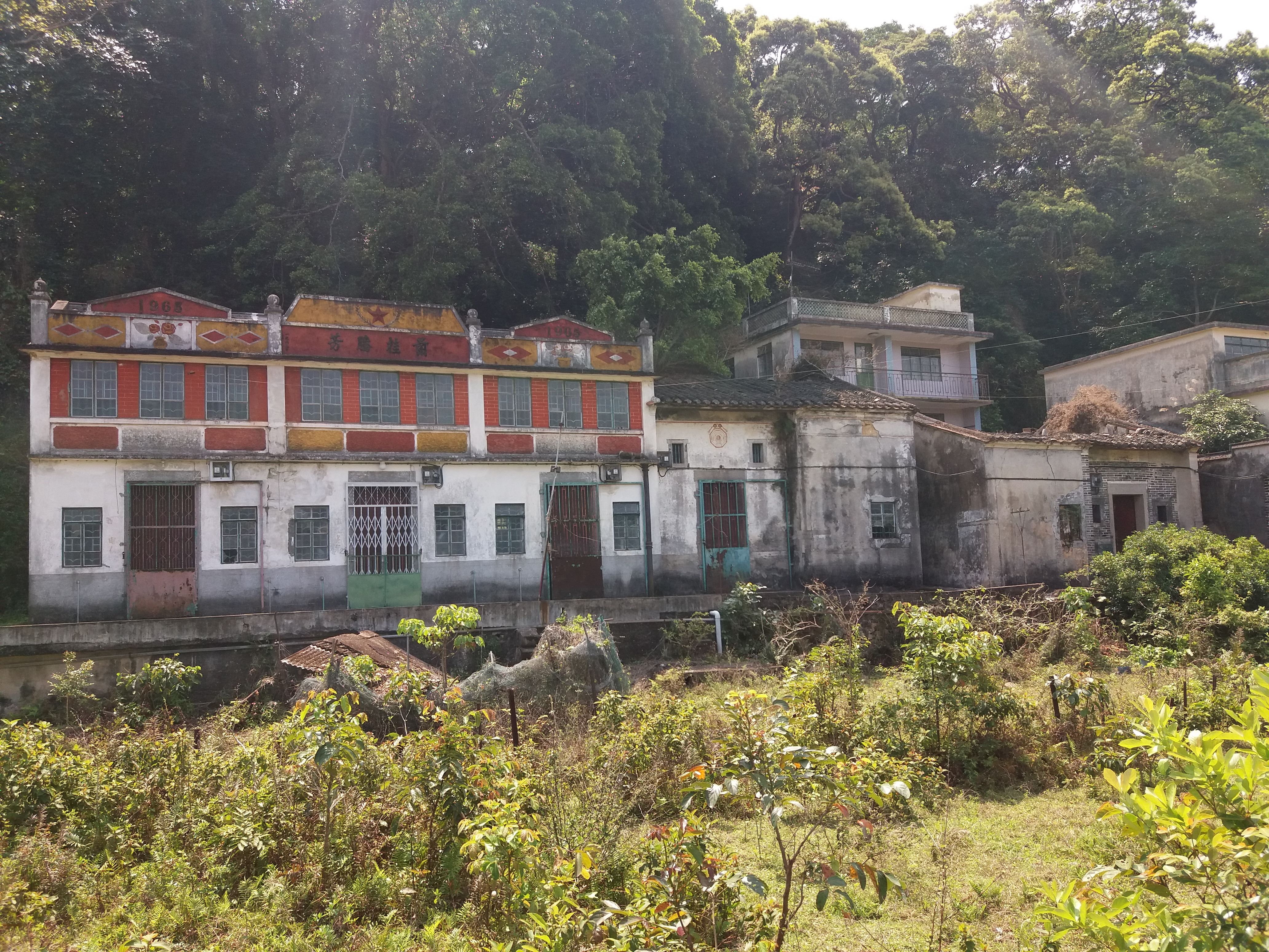 Abandoned Houses in Kukpo